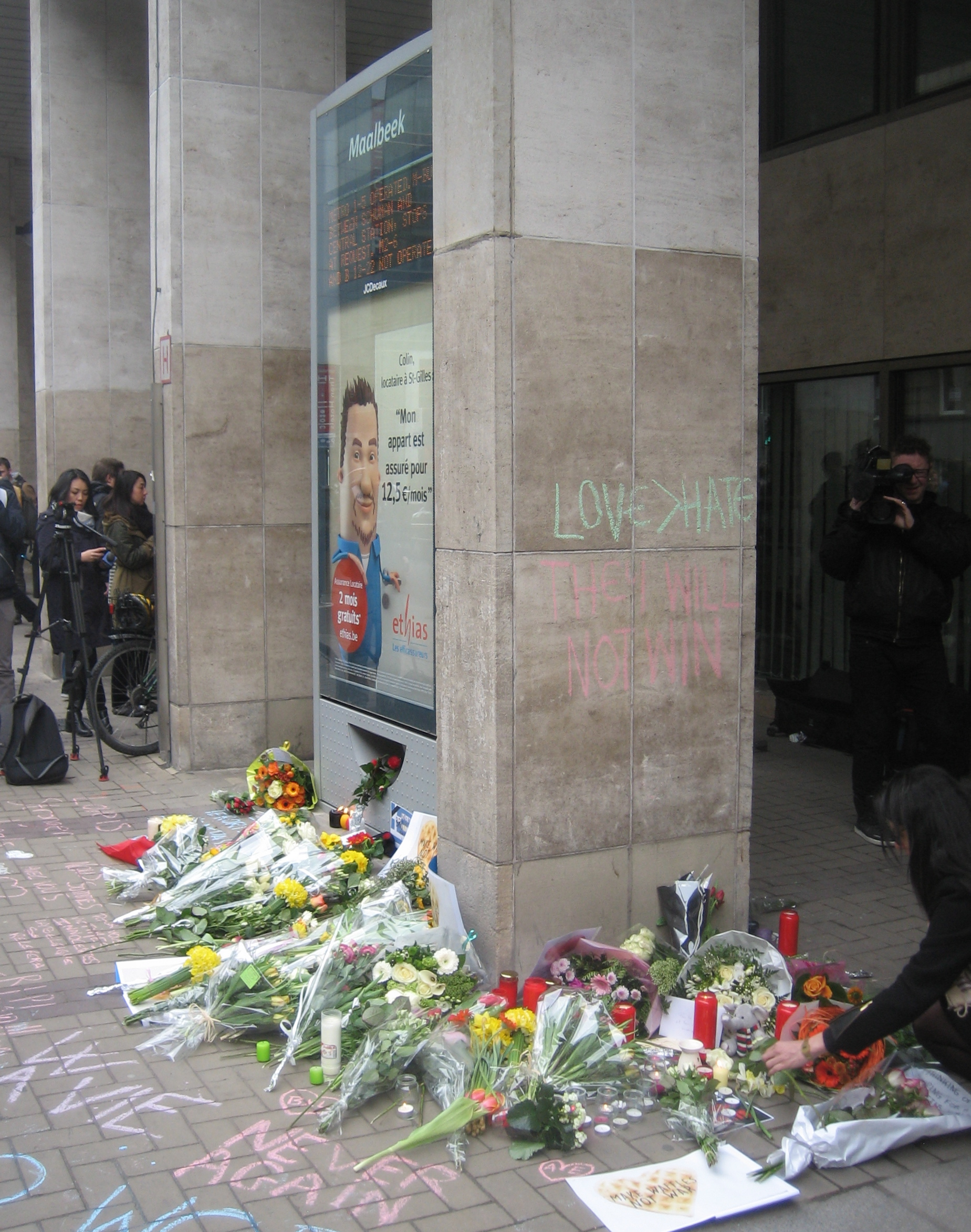 One of the entrances of Maelbeek/Maalbeek metro station at Rue de la Loi/Wetstraat: Flowers and inscriptions two days after 22 March 2016 Brussels attacks.